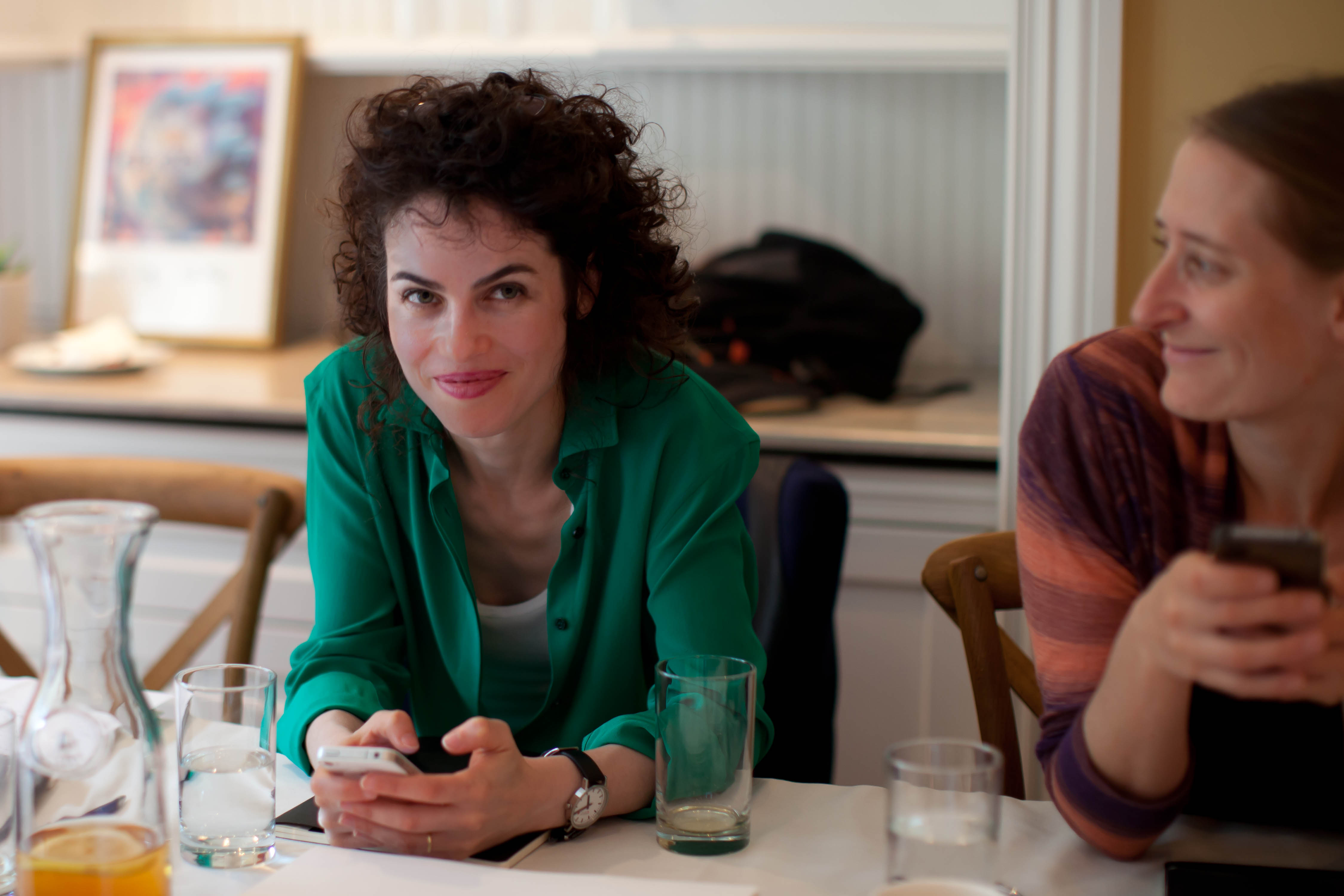 Neri Oxman and Leah Buechley